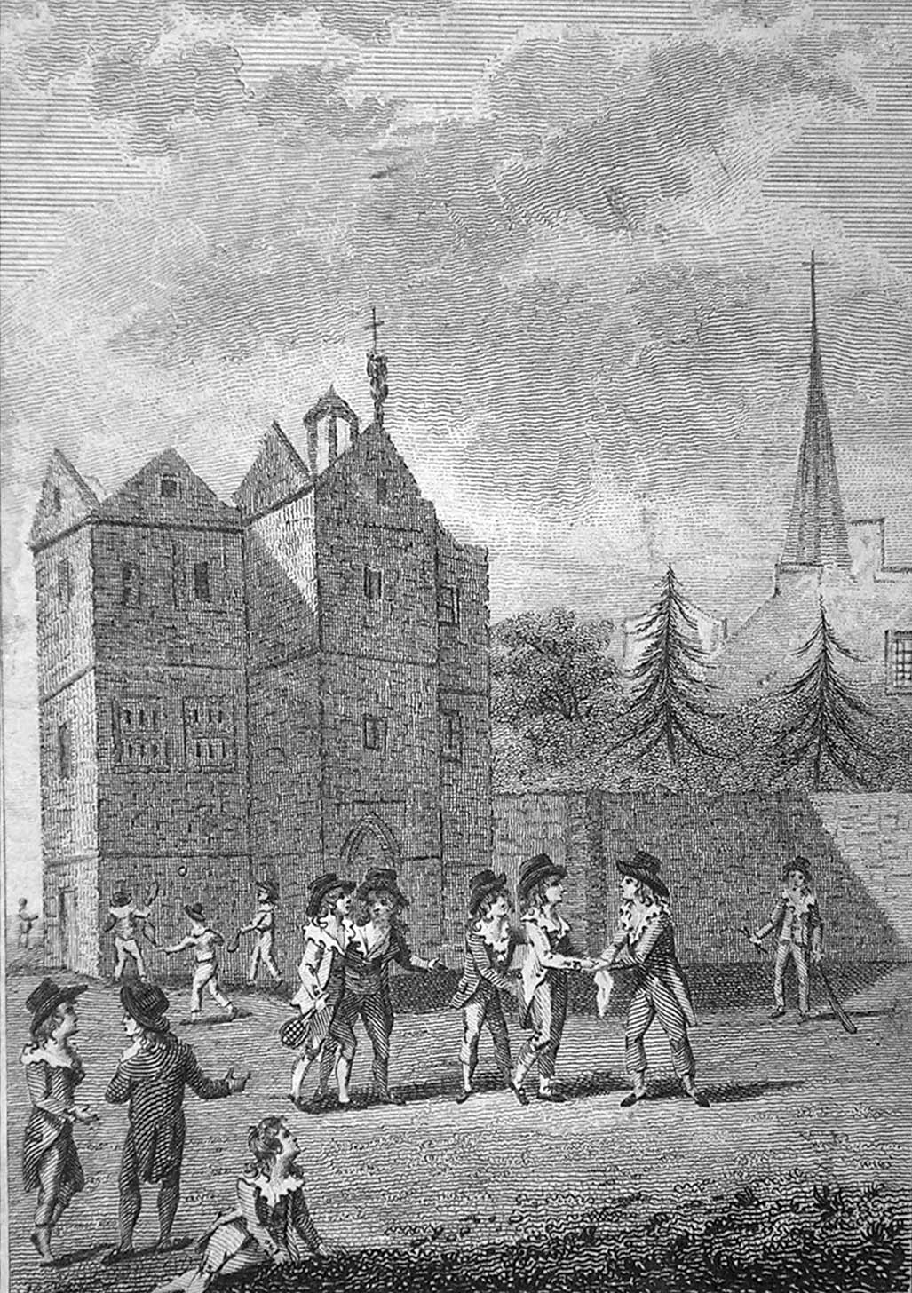 Group of pupils of the Harrow School in 1615.